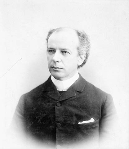 Honourable Wilfrid Laurier